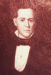 Elias Nelson Conway, 5thGovernor of Arkansas